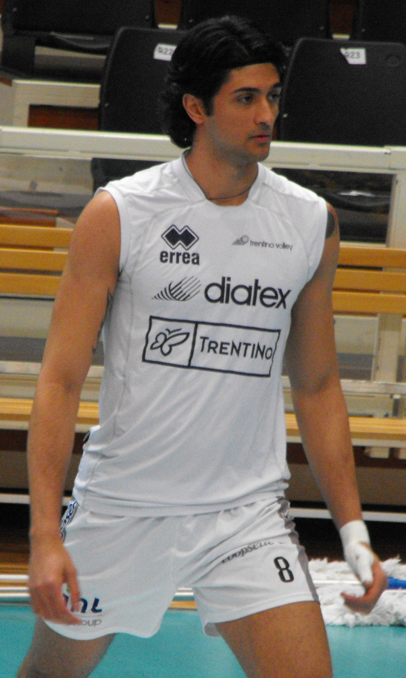 Leandro Vissotto Neves, brazilian volleyball player